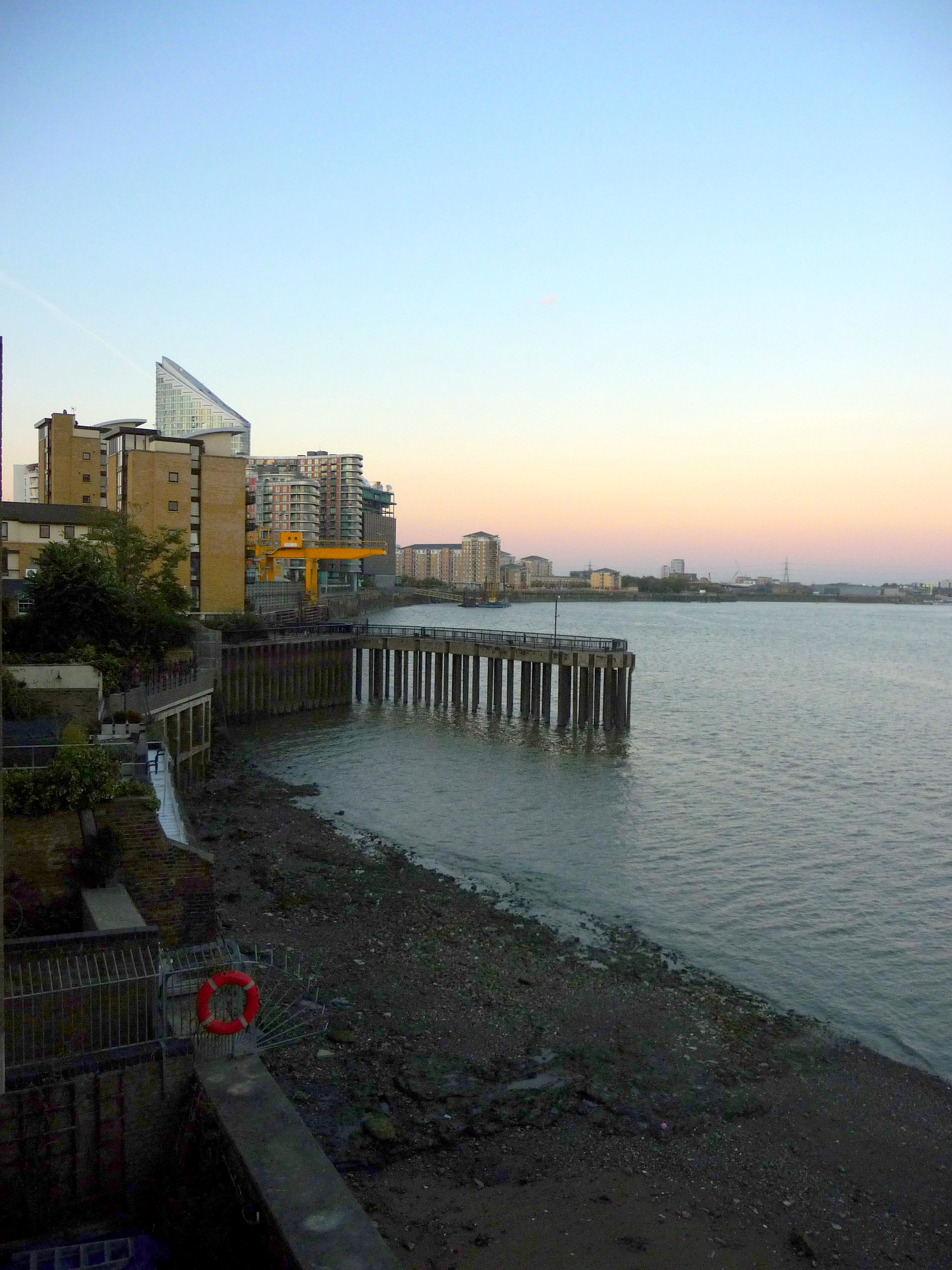 North Wharf, looking north towards East India Dock.